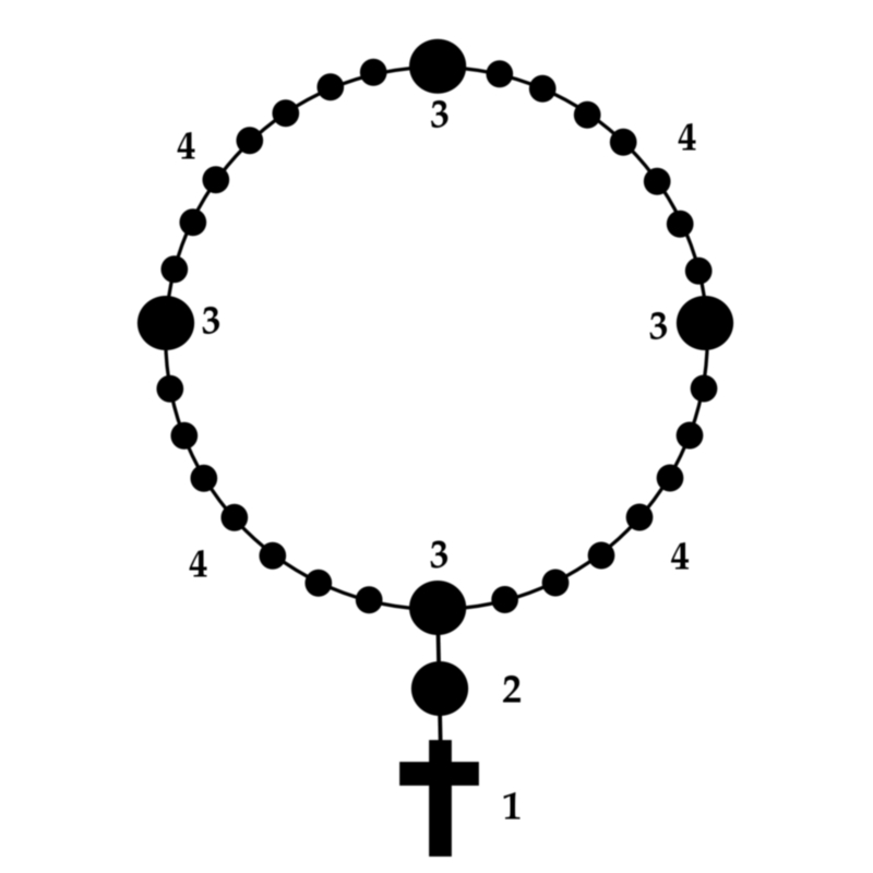 Sketch of the Anglican prayer beads (1) The Cross – (2) The Invitatory – (3) The Cruciforms – (4) The Weeks